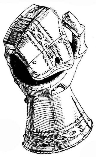 Locking Gauntlet of Emperor Ferdinand I (1560)